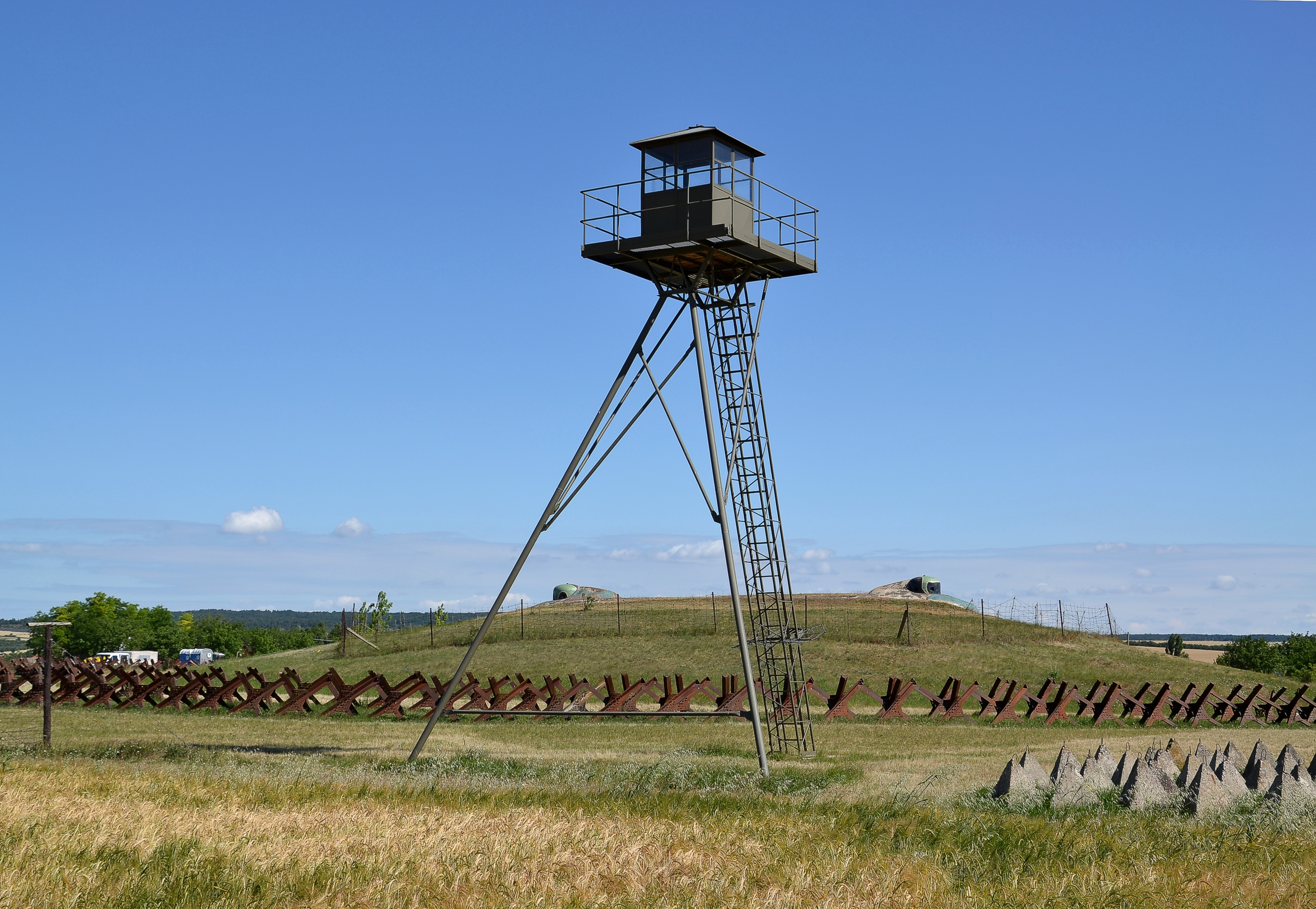 MJ-S 3 Zahrada casemate and observation tower, Šatov (Schattau)